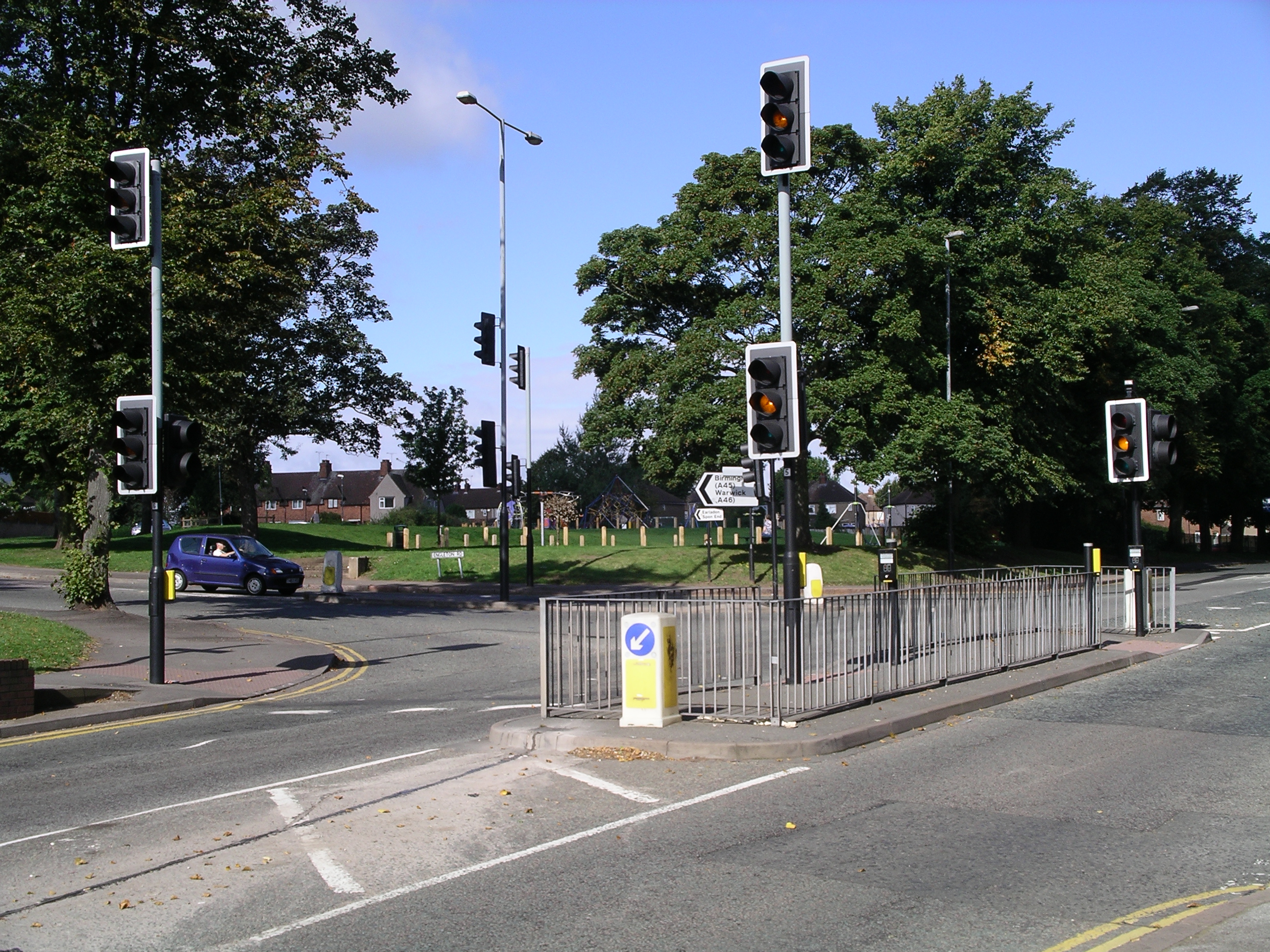 Radford Common, Radford, Coventry, England.